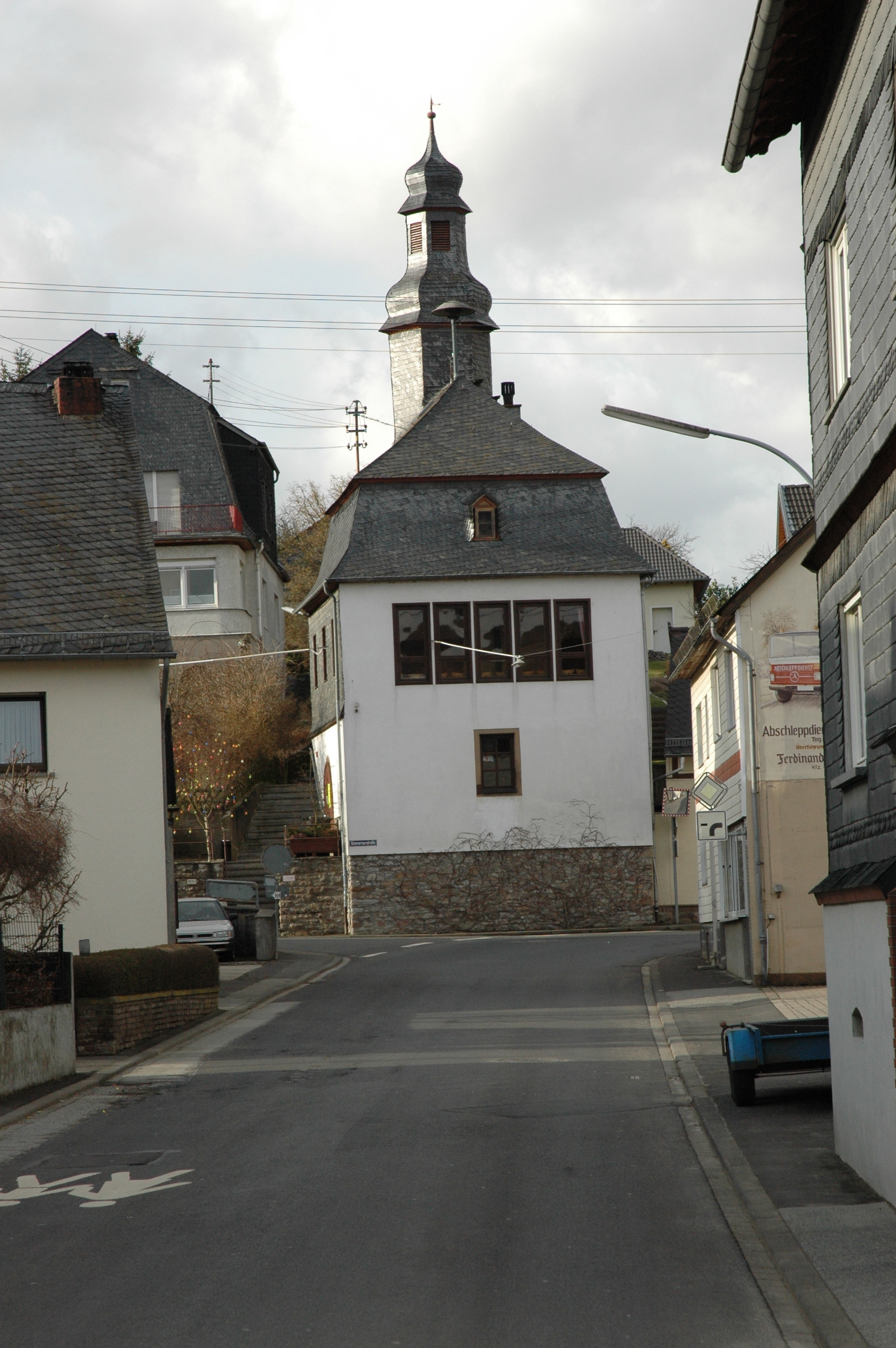 Ellern, a village in the Hunsrück landscape, Germany.